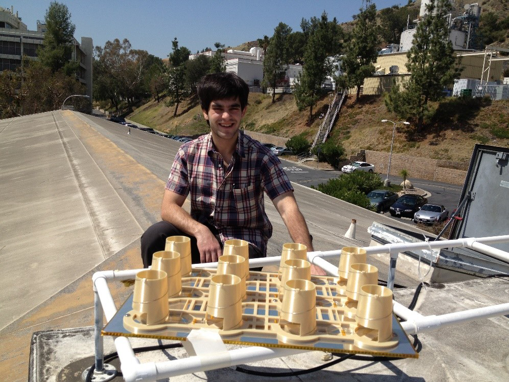 This is the second prototype of the COSMIC-2 Radio Occultation antenna array. It is fabricated out of 3D printed FDM Ultem 9085